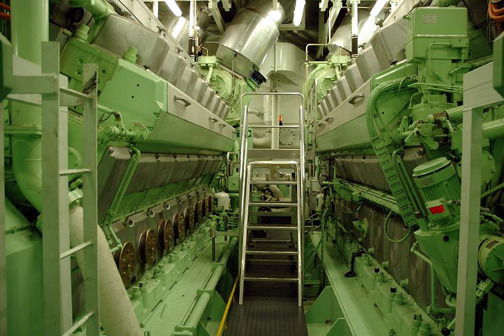 Two of the three Wärtsilä 16V32 diesel alternators of 6,2 MW each delivering the power needed for the propulsion of the french Mistral amphibious assault ship. (april 2006).